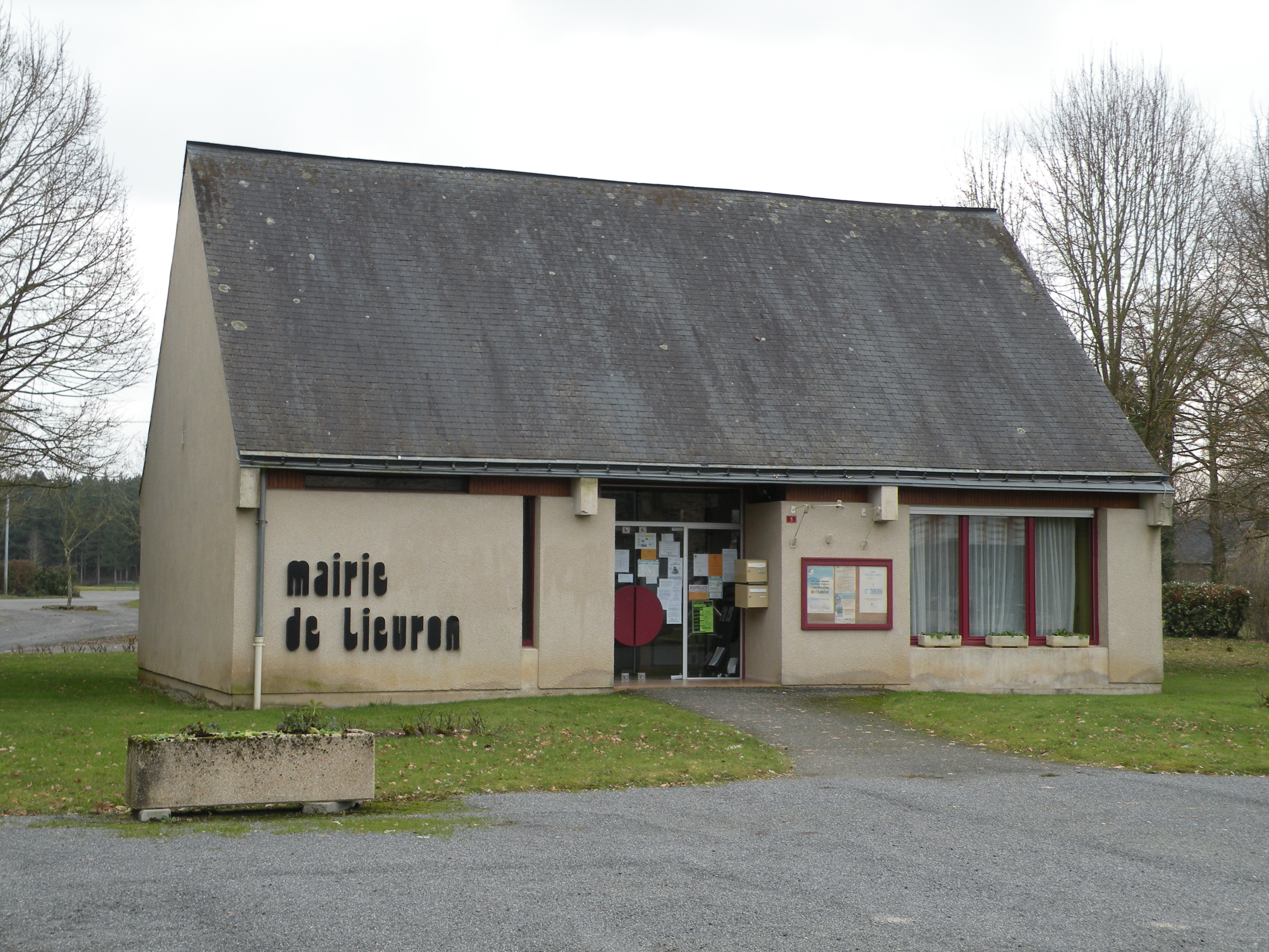 Town hall of Lieuron.